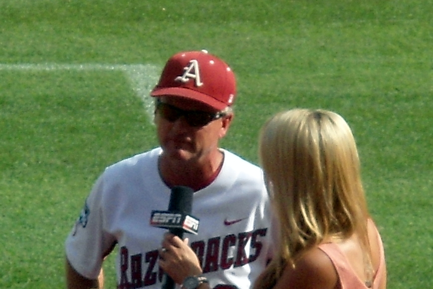 Arkansas Razorbacks baseball coach Dave van Horn is interviewed during a game against the Kent State Golden Flashes in the 2012 College World Series in Omaha, Nebraska.